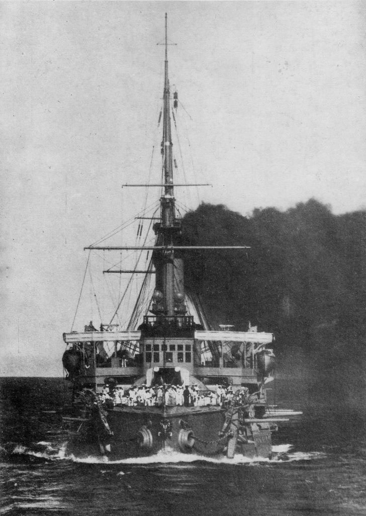 Imperial Russian battleship ImperatorAleksandr II.